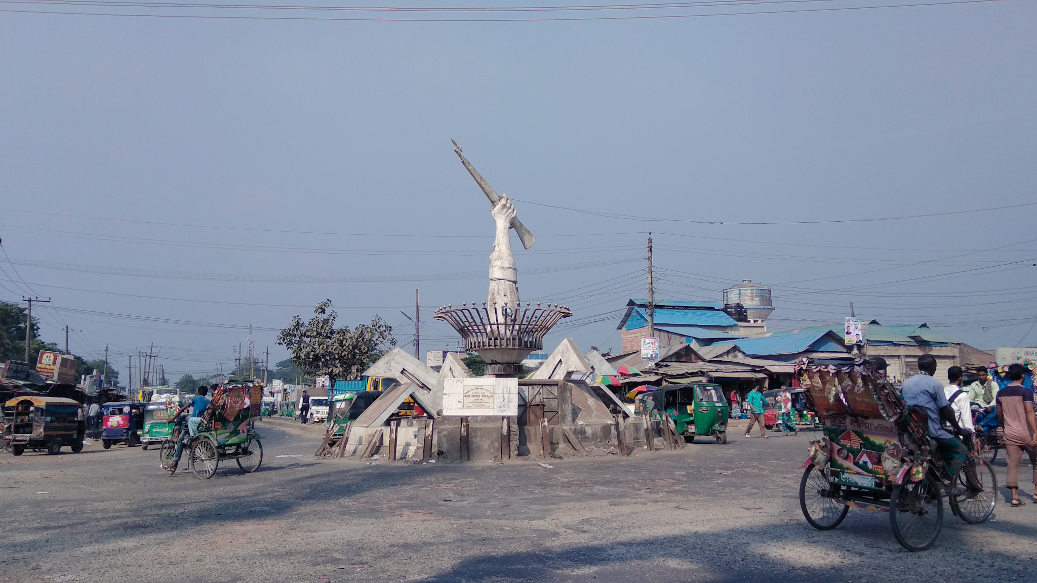 This is an image of a monument located in Chourasta, Chowmohuni.